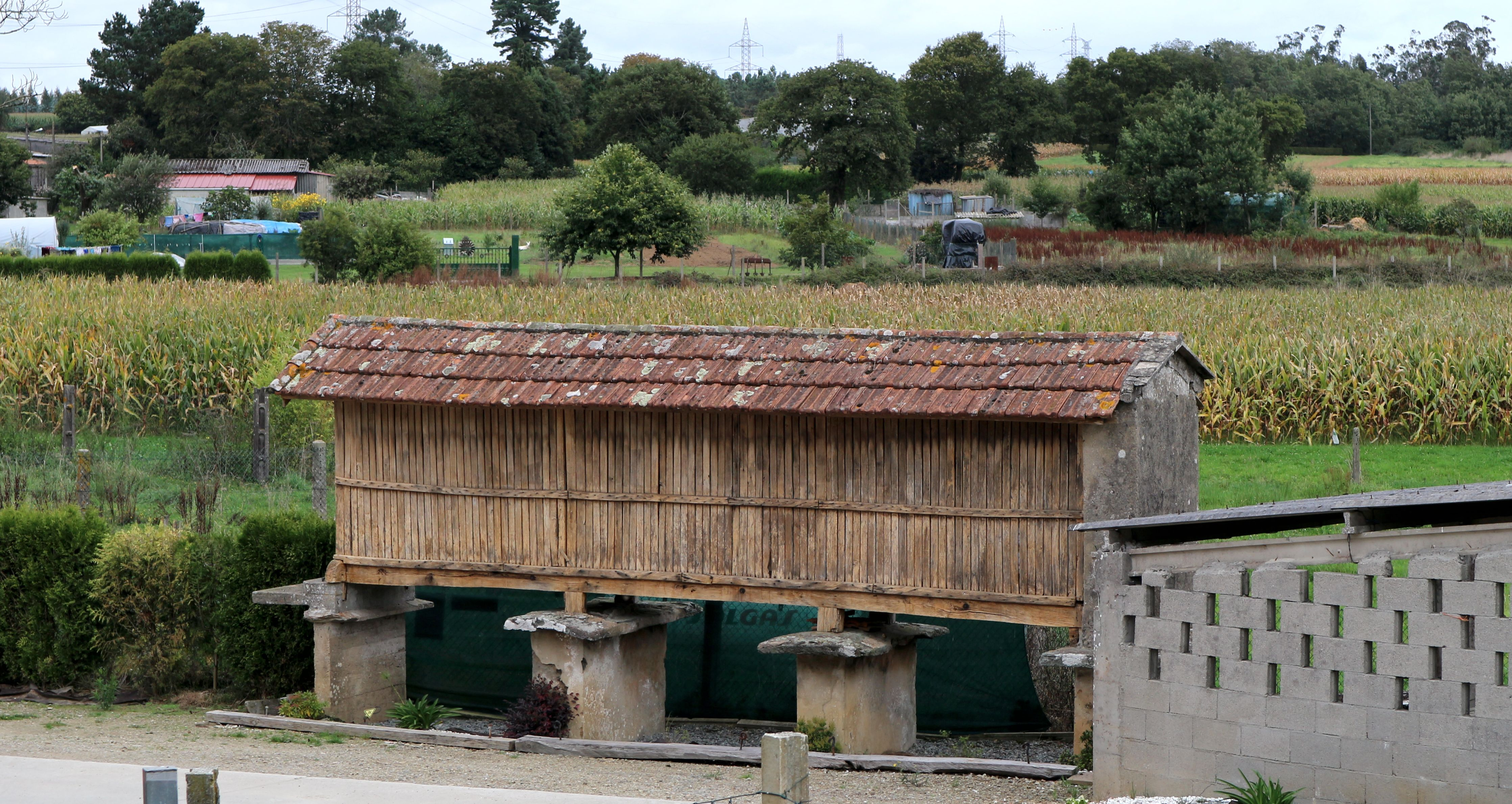 Hórreo no Hopital de Bruma, en Mesía (A Coruña).